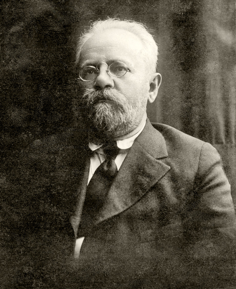 Picture of Nachman Syrkin